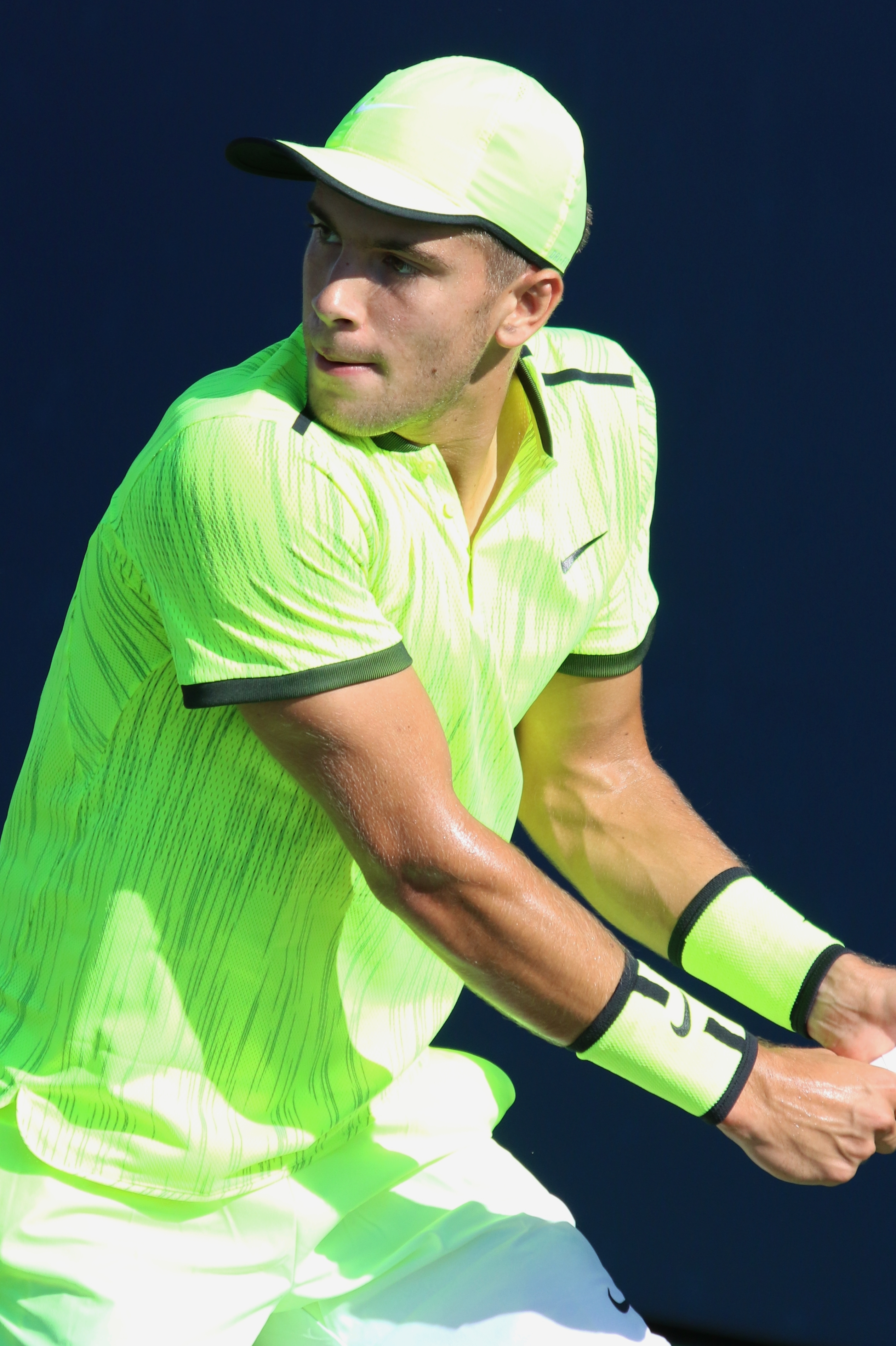 Coric US16 (60)